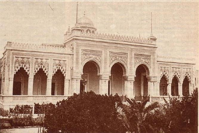 The former Palace of Cyrenaica Parliament in 1928,"Littorio Palace", "Parlamento della Cirenaica, Palazzo Littorio", "، قصر ليتوريو-البرلمان البرقاوي" in Benghazi,Libya.(the Building is not present at this time.) The building was designed by the colonial Italian architect Carlo Rossini in 1923.